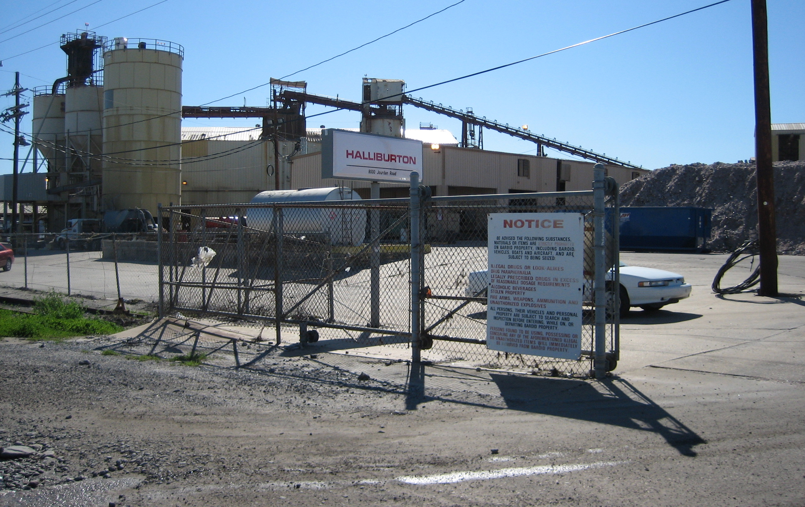 Halliburton facility on Jourdan Road, beside the Industrial Canal. New Orleans.